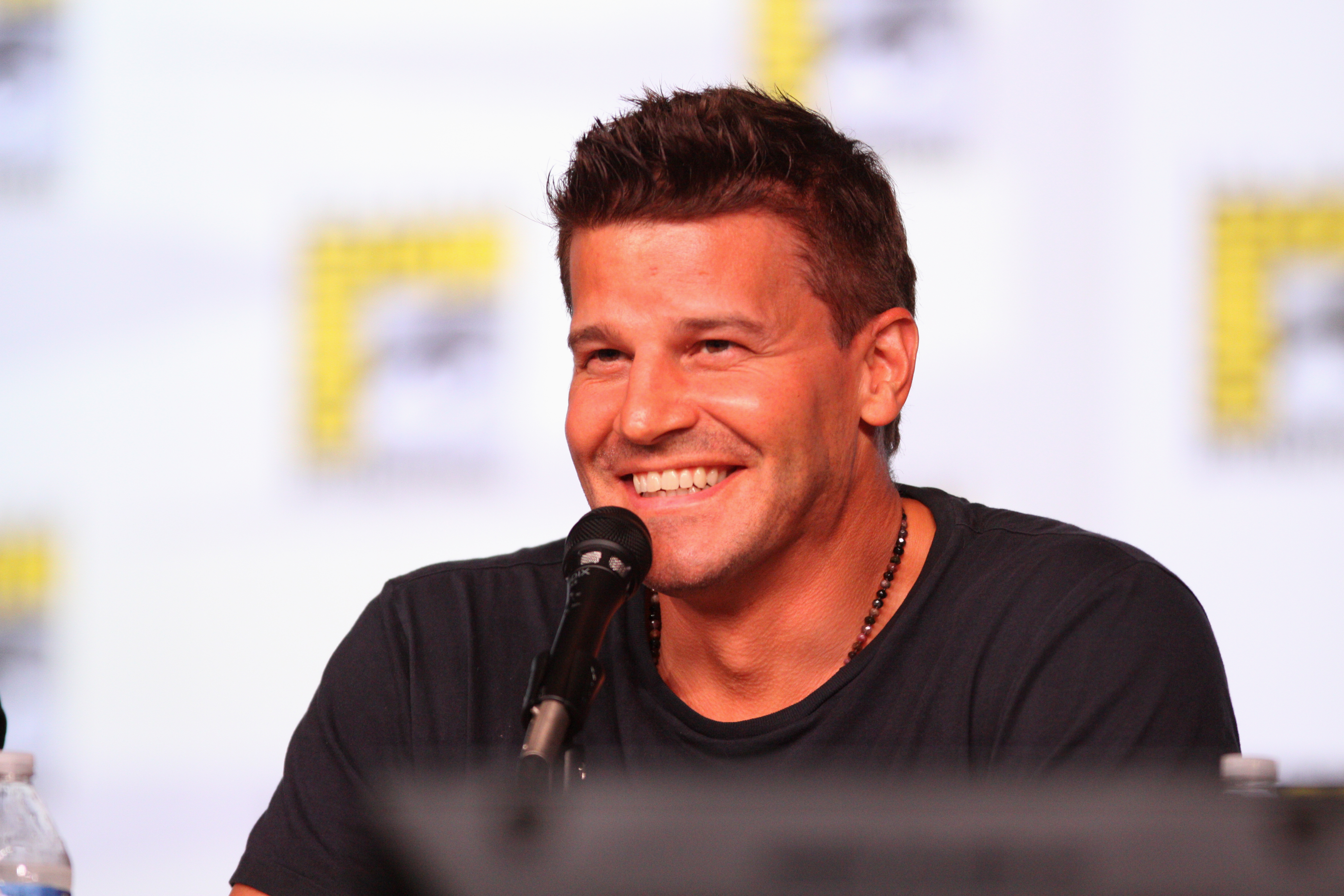 David Boreanaz speaking at the 2012 San Diego Comic-Con International in San Diego, California.